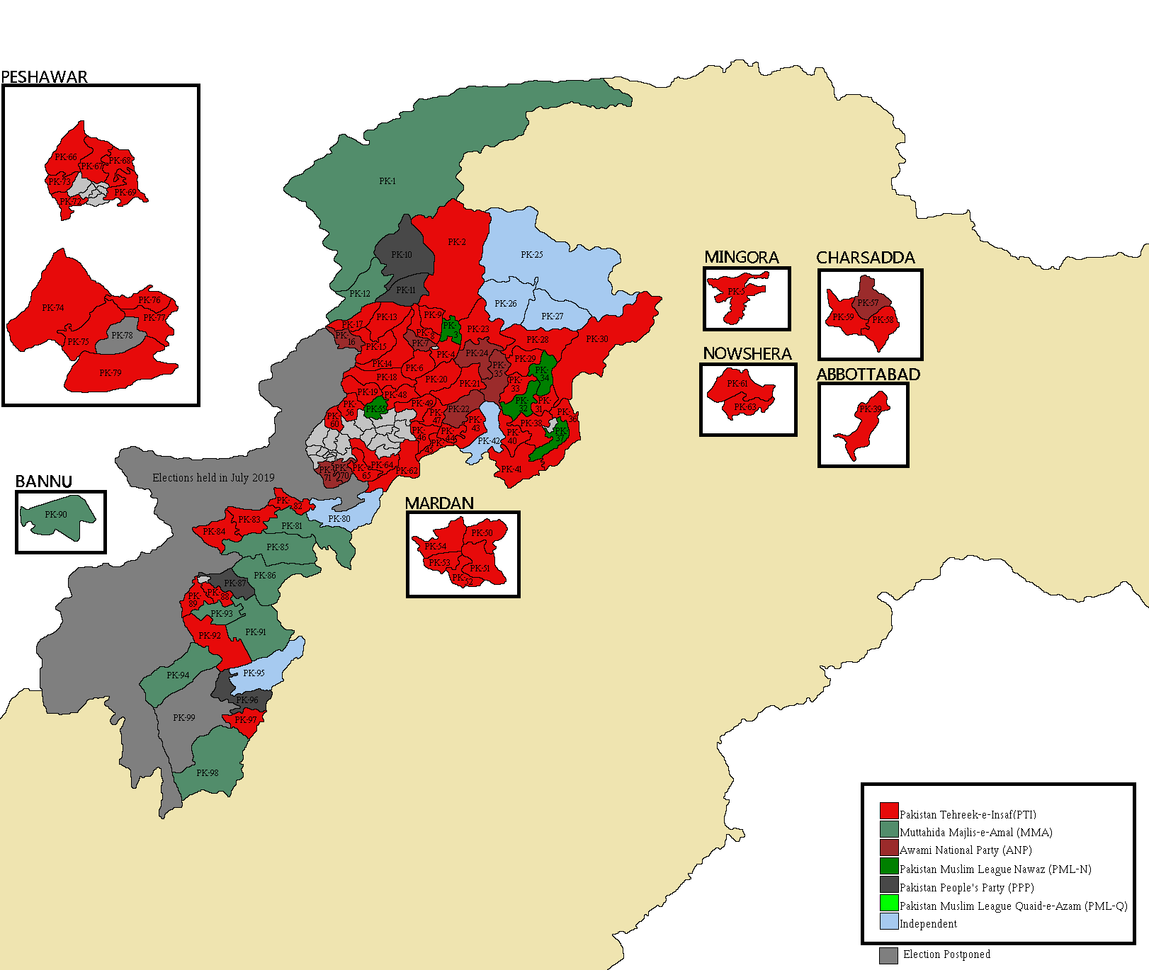 Map of Khyber Pakhtunkhwa showing Assembly Constituencies and winning parties